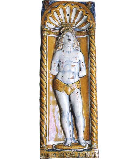 iiiiiiiiiiiiiiiiiiiiiiiiiiiiiiiiiiiiiiiiiii